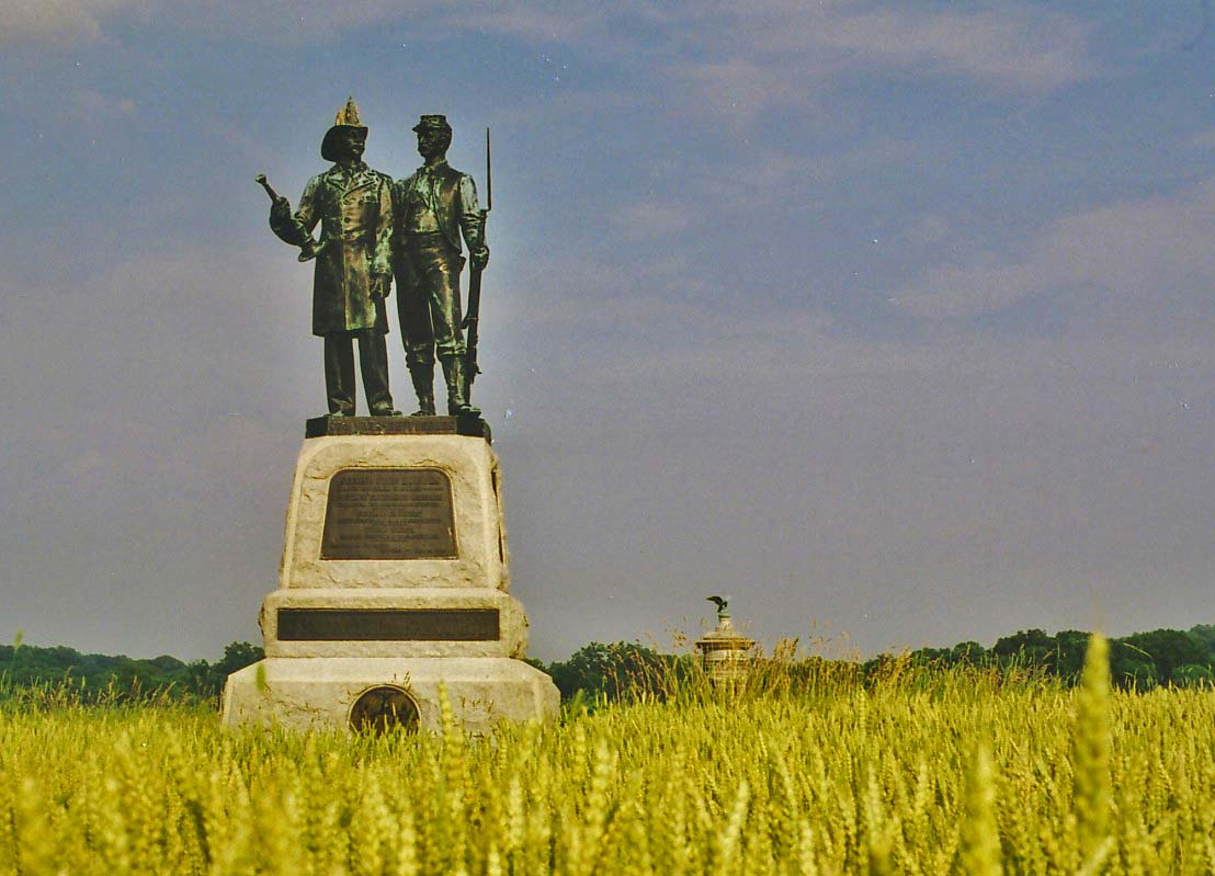 Monument to the 73rd NY Infantry, aka the 2nd Fire Zouaves by Joseph Moretti at Gettysburg battlefield